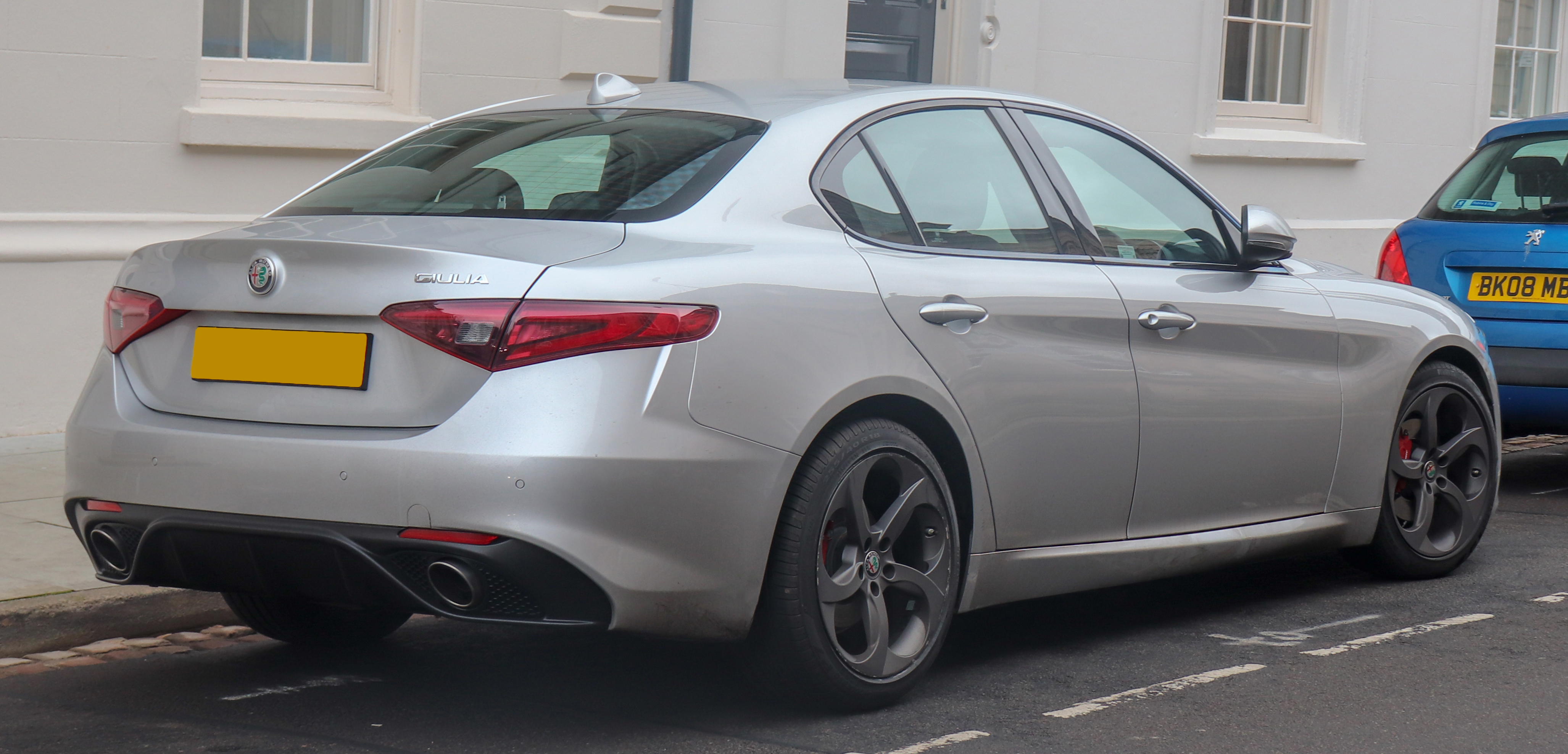 2018 Alfa Romeo Giulia Speciale TD Automatic 2.1 Rear Taken in Warwick